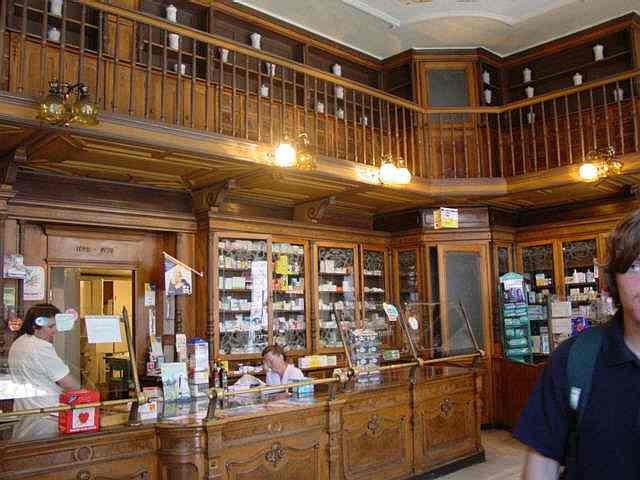 Mikolasch's pharmacy in Lwów, the place where Ignacy Łukasiewicz invented the kerosene lamp;modern view